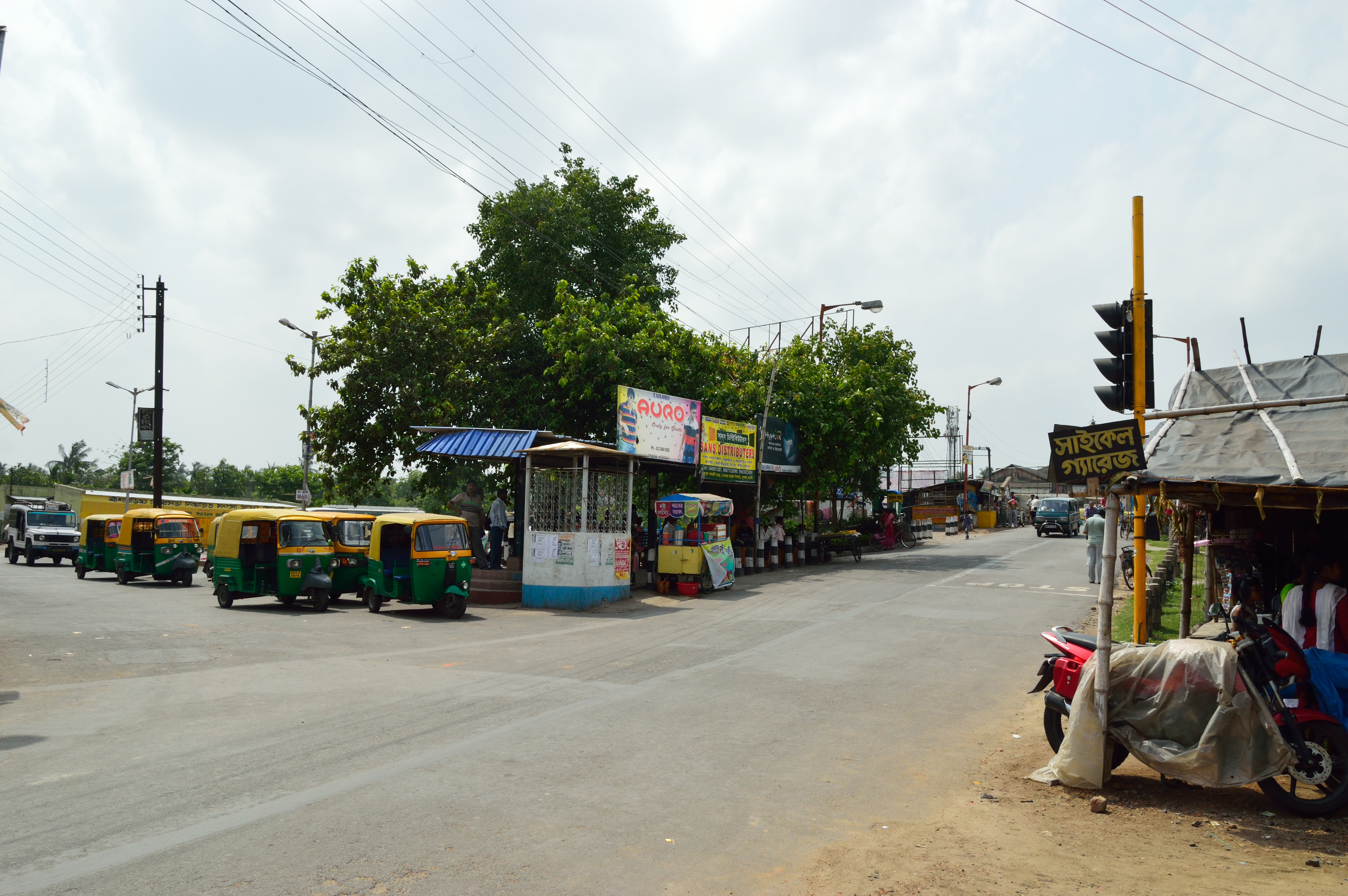 Photographed in Hooghly.